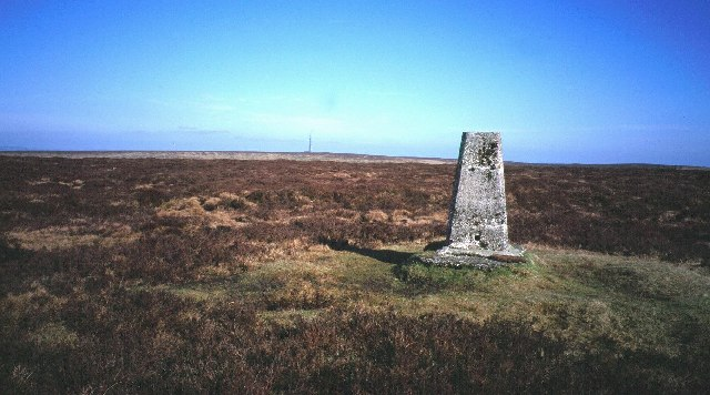 The summit of Great Rhos, Powys, Wales.